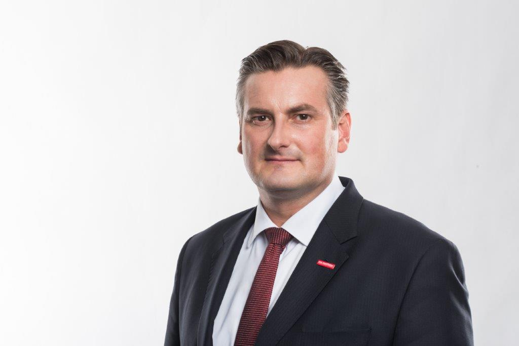 Arnd Klein-Zirbes (2017), Photo: Peter Kerkrath